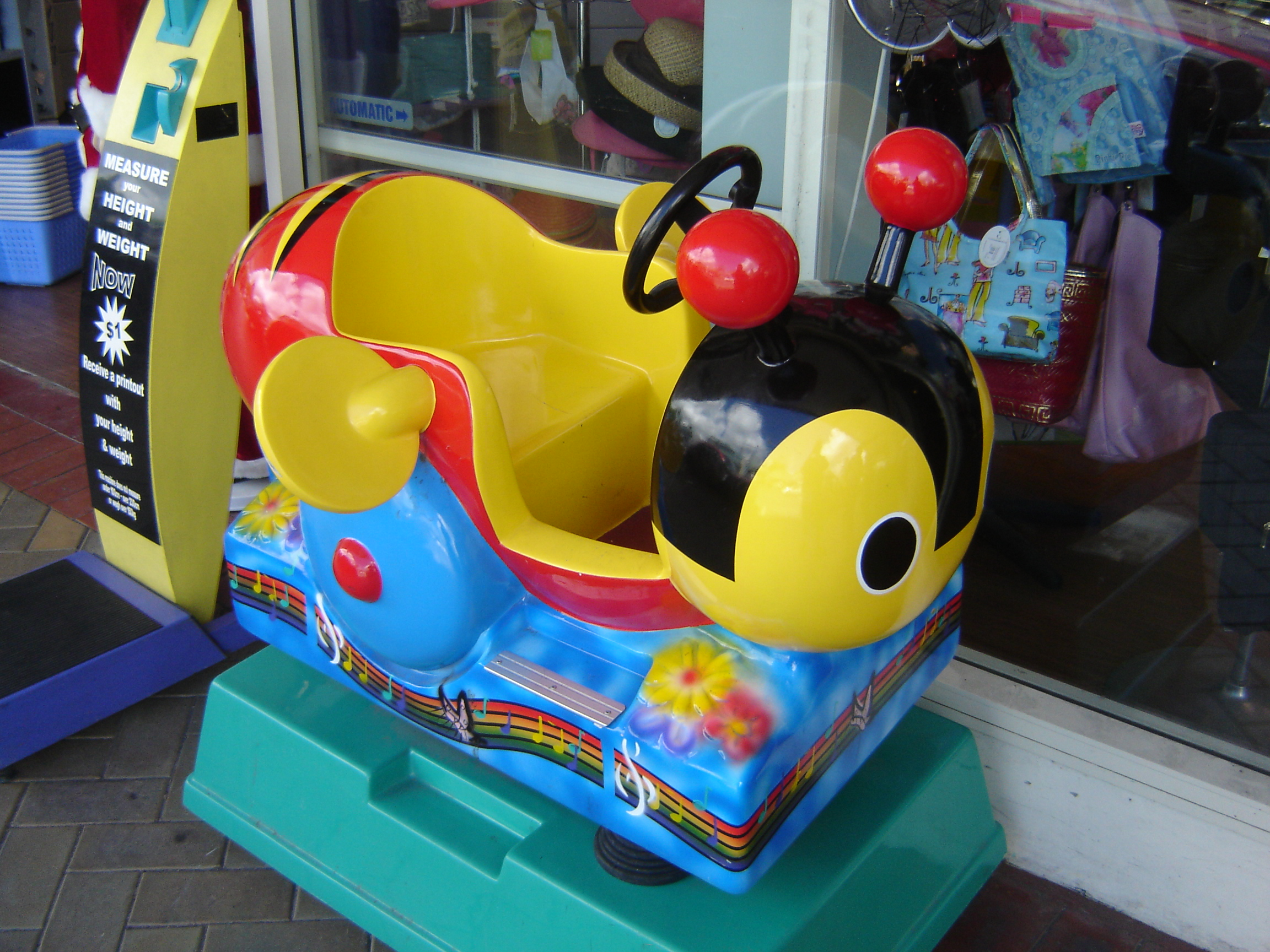 A children's ride shaped like a Buzzy Bee in Warkworth, New Zealand.